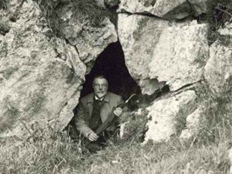 Westropp posing inside a dolmen. Date unknown, probably between 1900-1916.